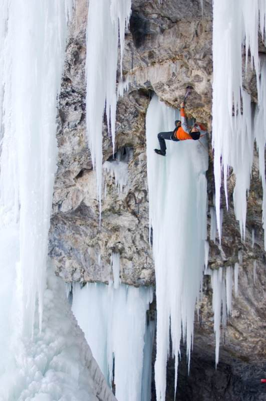 Rich Purnell mixed climbing at the pirates cove.